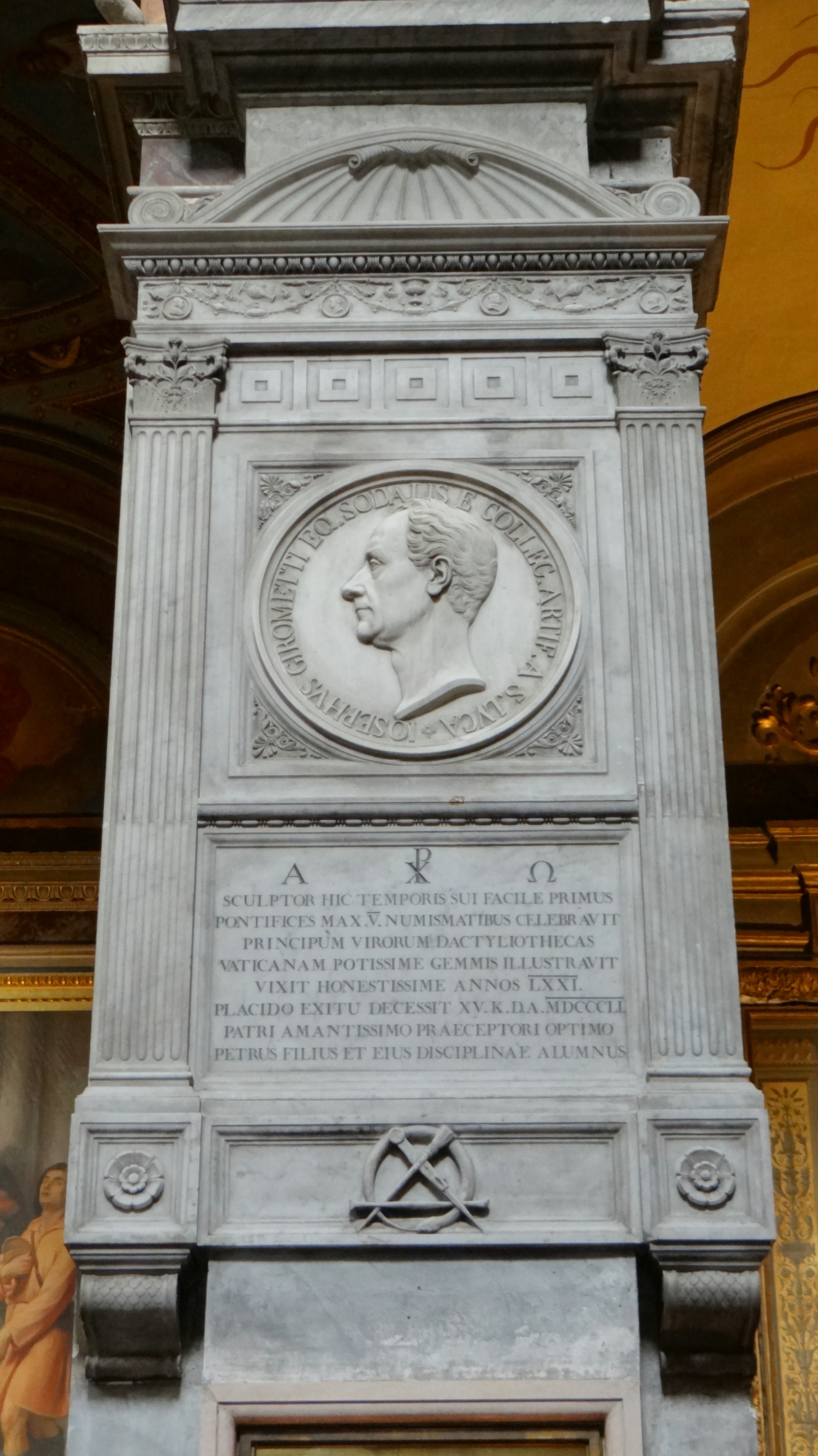 Neo-Classical funeral monument for Giuseppe Girometti, papal engraver and medalist in the Basilica of Santa Maria del Popolo, Rome (after 1852).